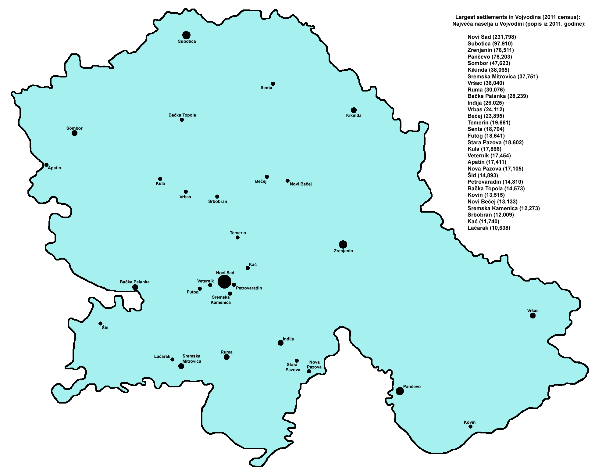 Largest settlements in Vojvodina (2011 census).